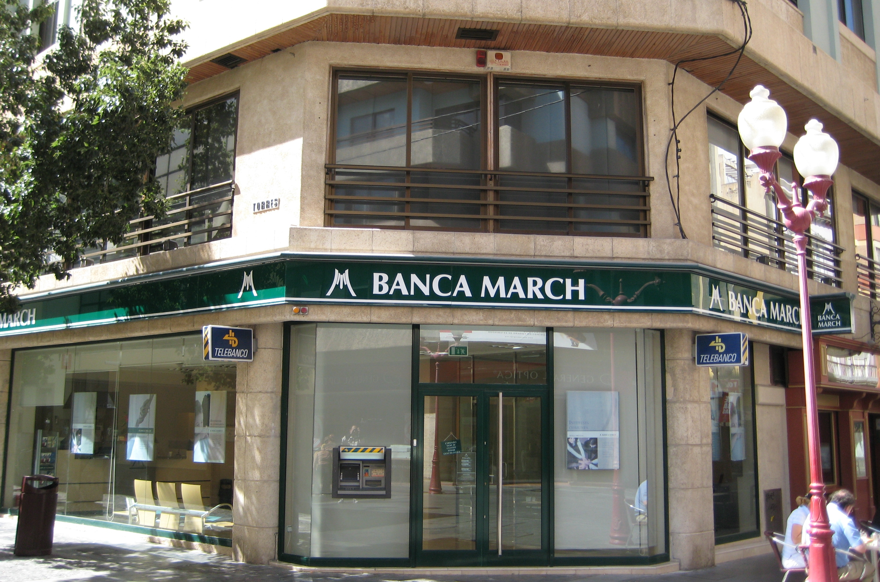 Branch of Banca Marcha in Las Palmas de Gran Canaria.